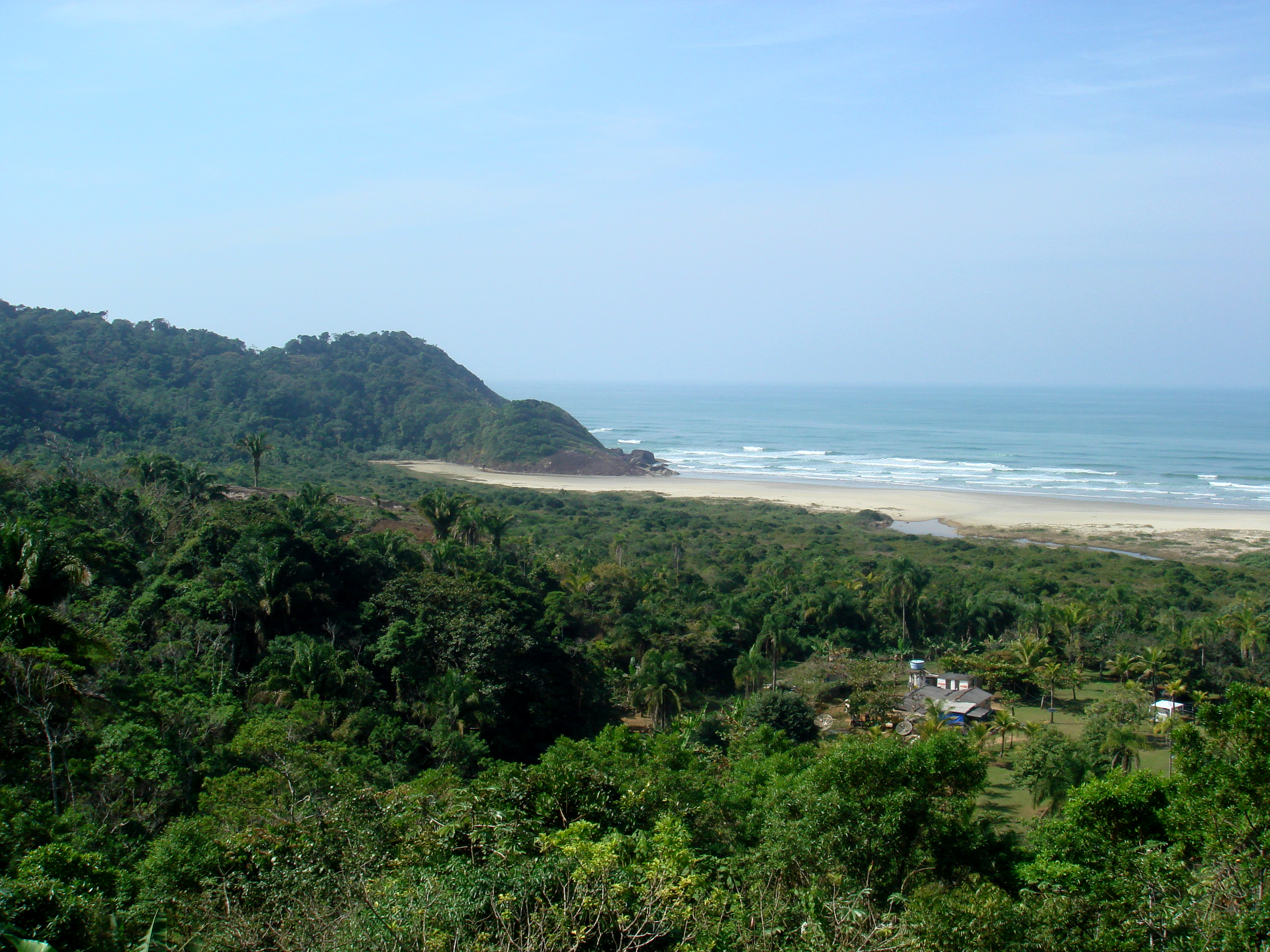 Beach (Barra do Una) in the Ecologic Estation of Juréia-Itatins, Peruíbe - São Paulo, Brazil.